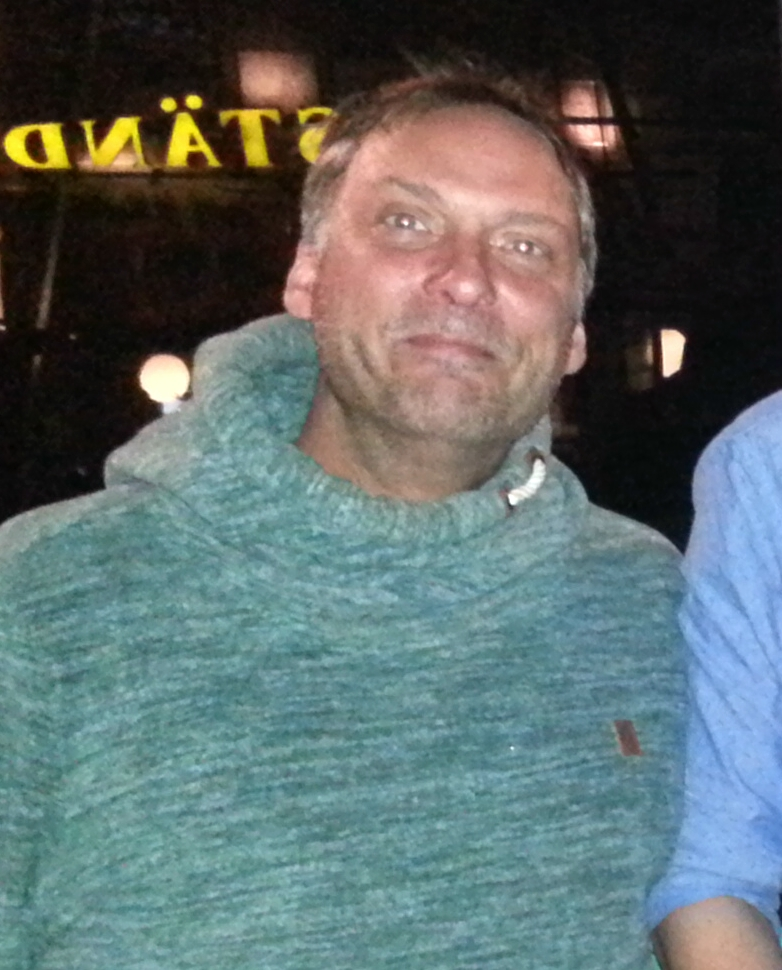 Matt Pegg, bass guitarist, after a Procol Harum concert in Hanover on Oct. 23, 2018.